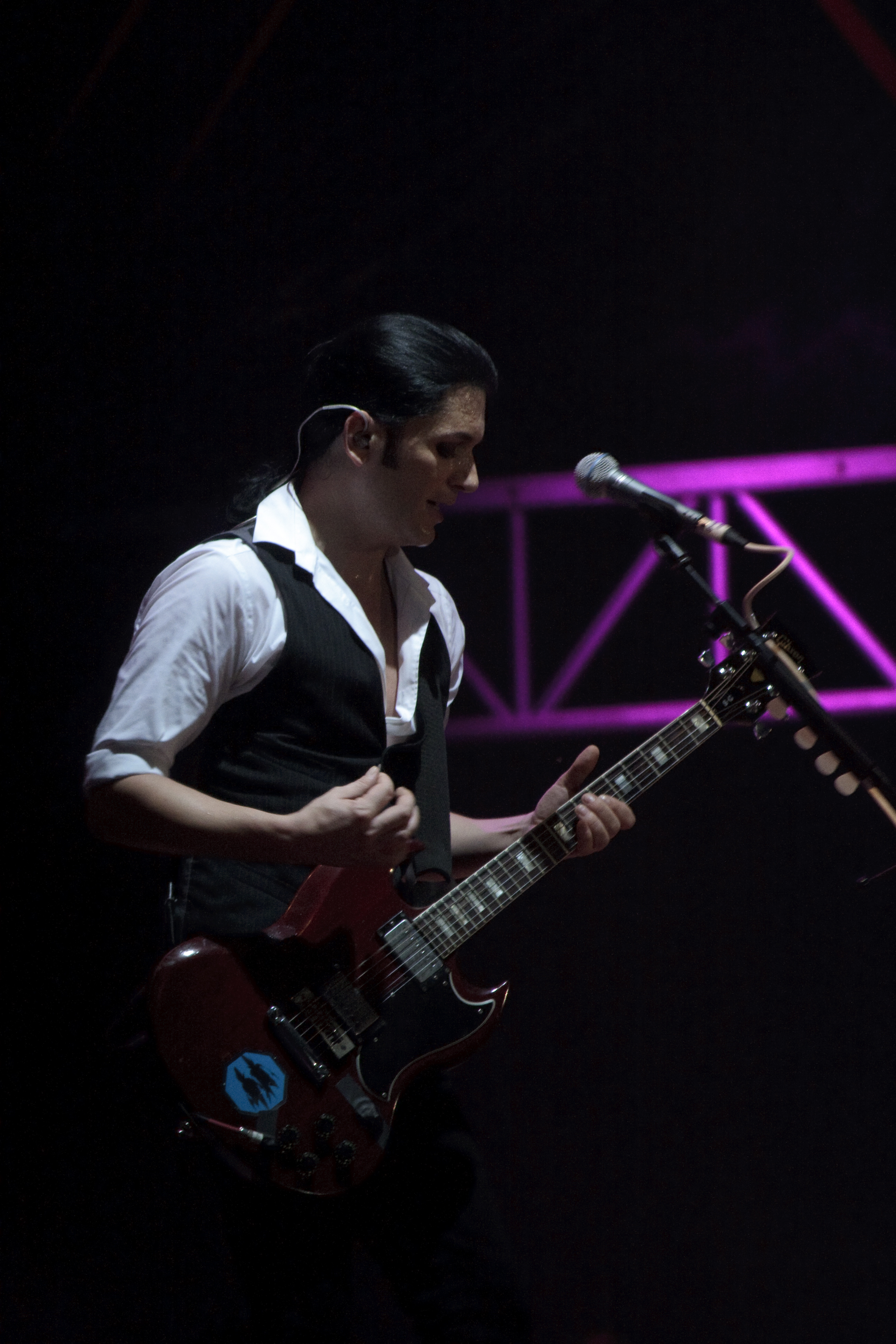 Brian Molko from rock band Placebo at Sziget Festival 2009